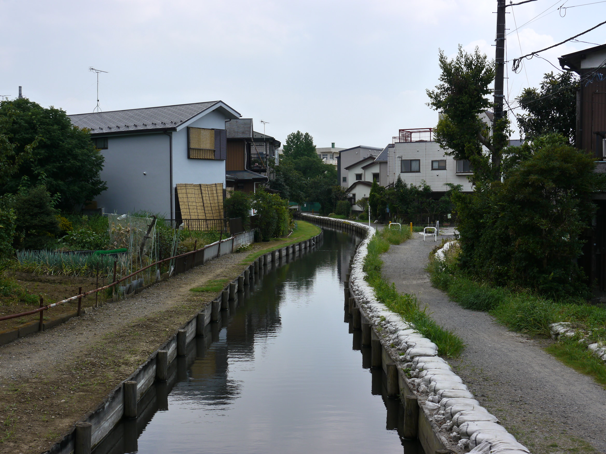 Kōnuma Yōsuiro Higashiberi (Kōnuma Waterway Eastside). In Oto 6 chōme, Chūō-ku, Saitama, Saitama prefecture, Japan. Southward.